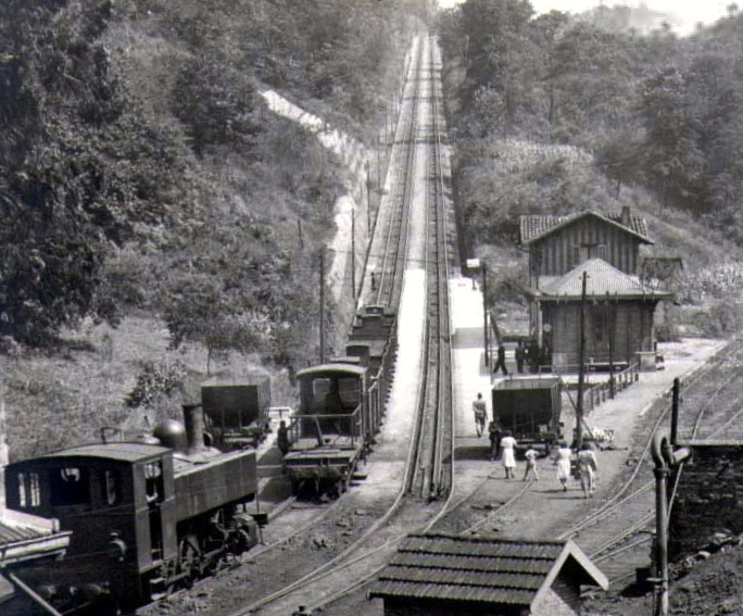 Inclined plane called San Pedro of the Ferrocarril de Langreo (Spanish company)